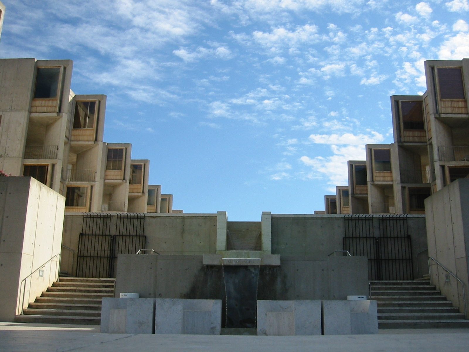 Salk Institute, La Jolla, California, USA by Louis Kahn, example of architecture of the modern movement.